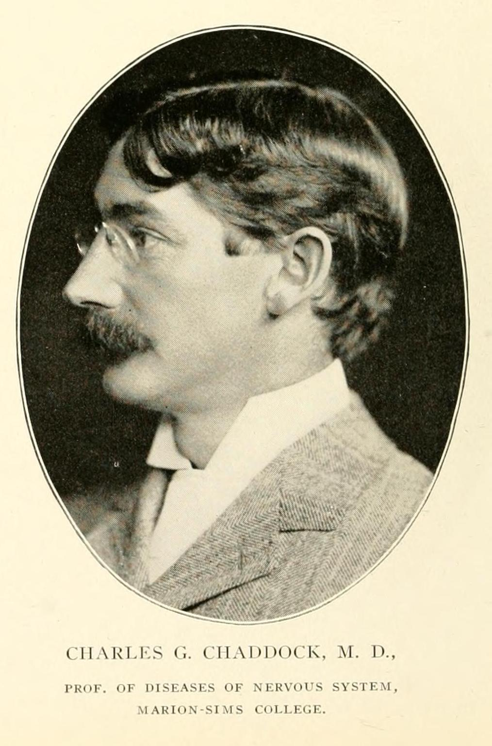 Charles G. Chaddock